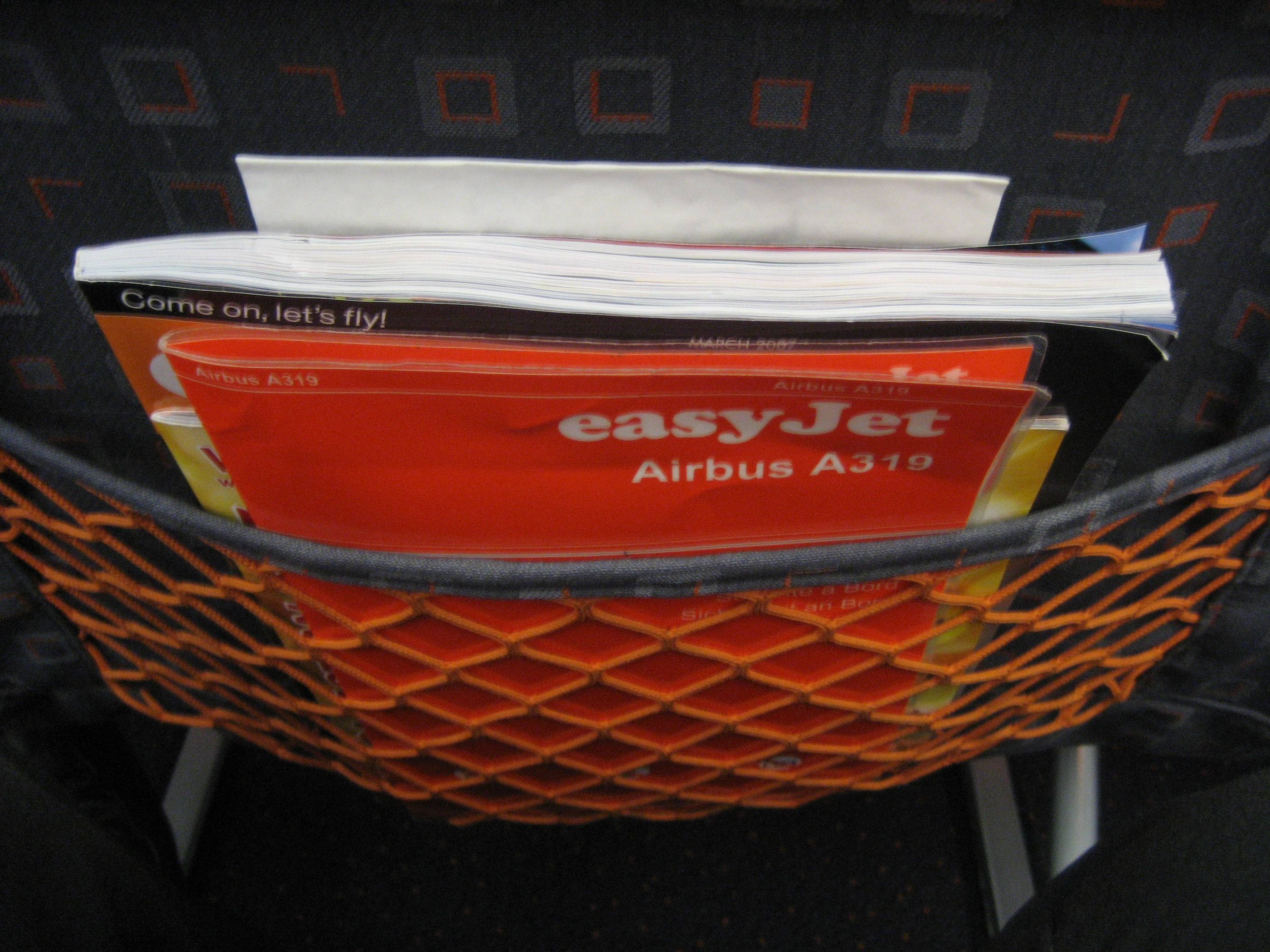 Seat pocket on an easyJet A319, showing safety card, retail brochure, inflight magazine and sick bag.